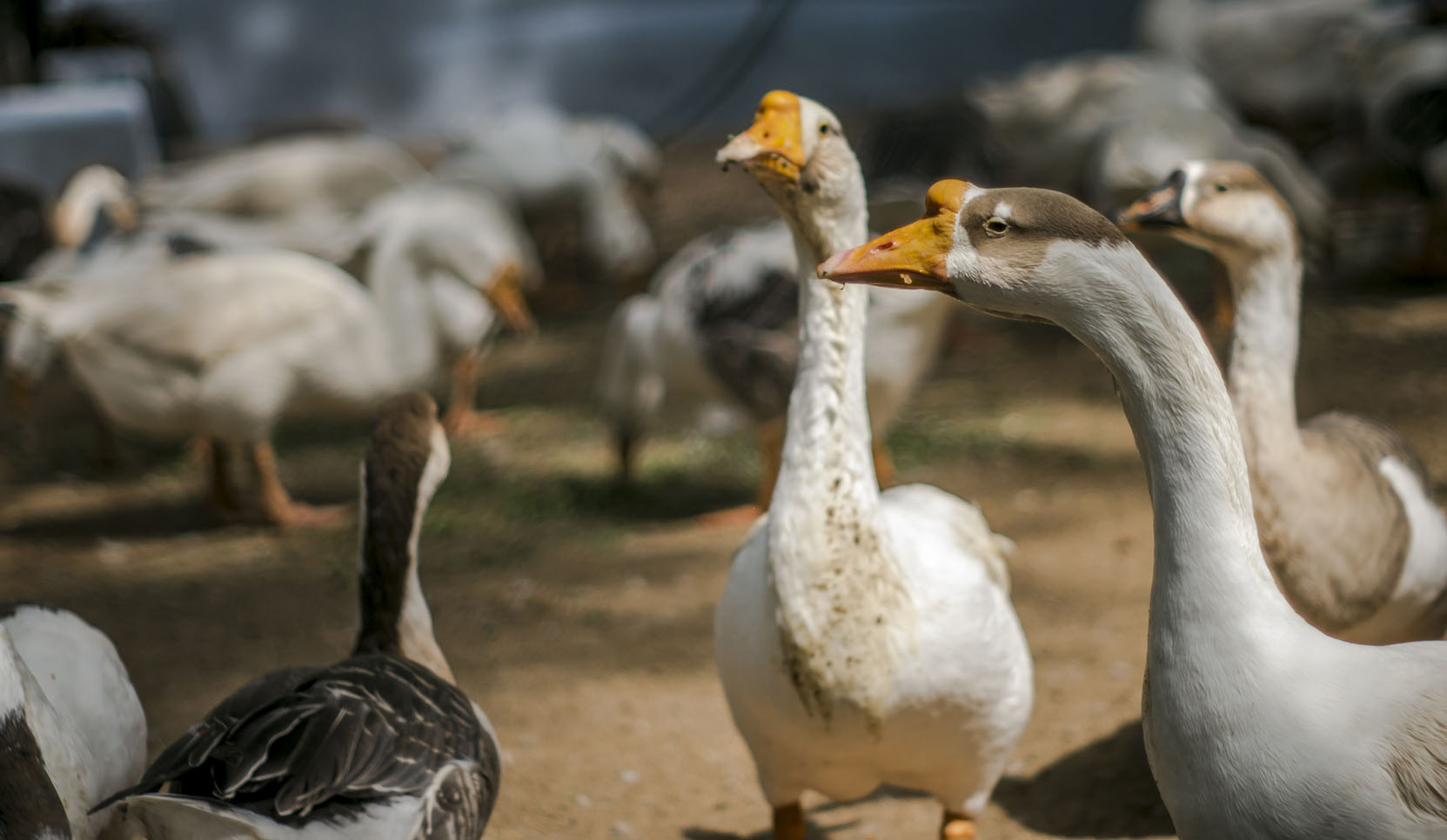 Ducks at Children's park/Guindy National Park, Chennai.